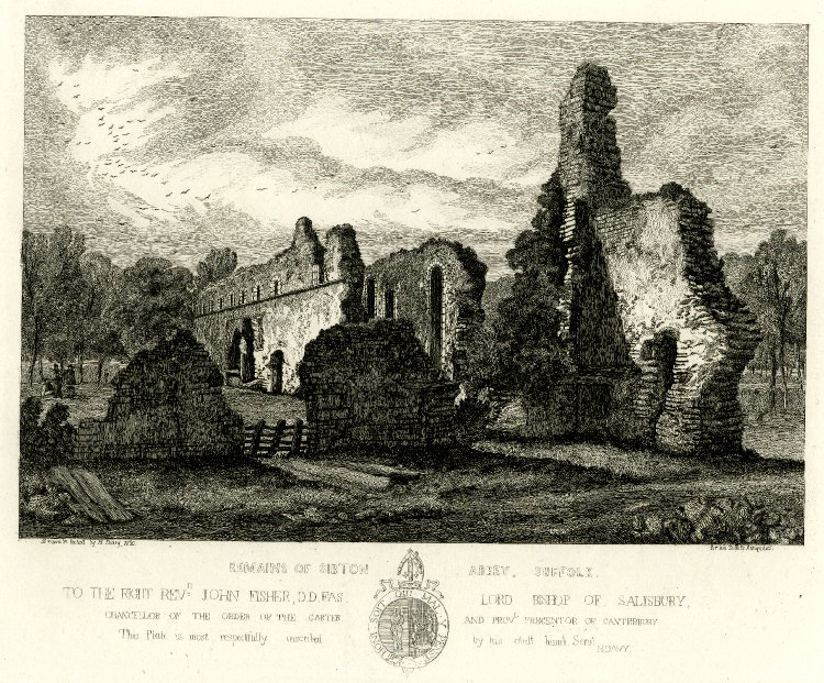 "Remains of Sibton Abbey, Suffolk," from "A Series of Etchings Illustrative of the Architectural Antiquities of Suffolk," etching by Henry Davy, published at Southwold. Etching dedicated to Right Rev. John Fisher, D.D., Bishop of Salisbury, patron of the painter John Constable and close confidante of King George III. Bishop Salisbury married Dorothea Scrivener, daughter of John Freston of Sibton Abbey, who had changed his name to Scrivener after a family inheritance. 240 mm x 287 mm. Courtesy of the British Museum, London.